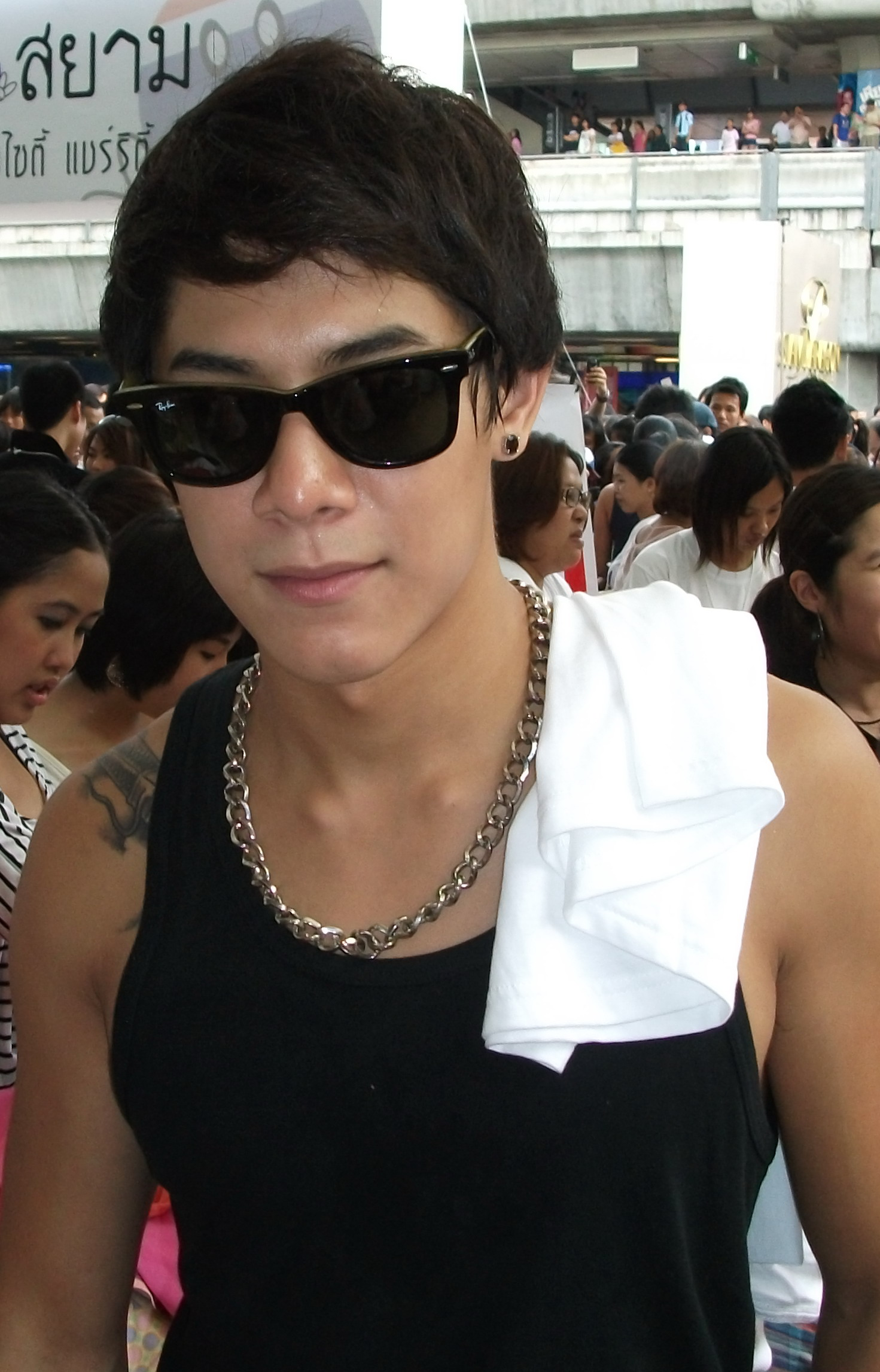 Guy Ratchanont at Parc Paragon, Siam Paragon, Bangkok.